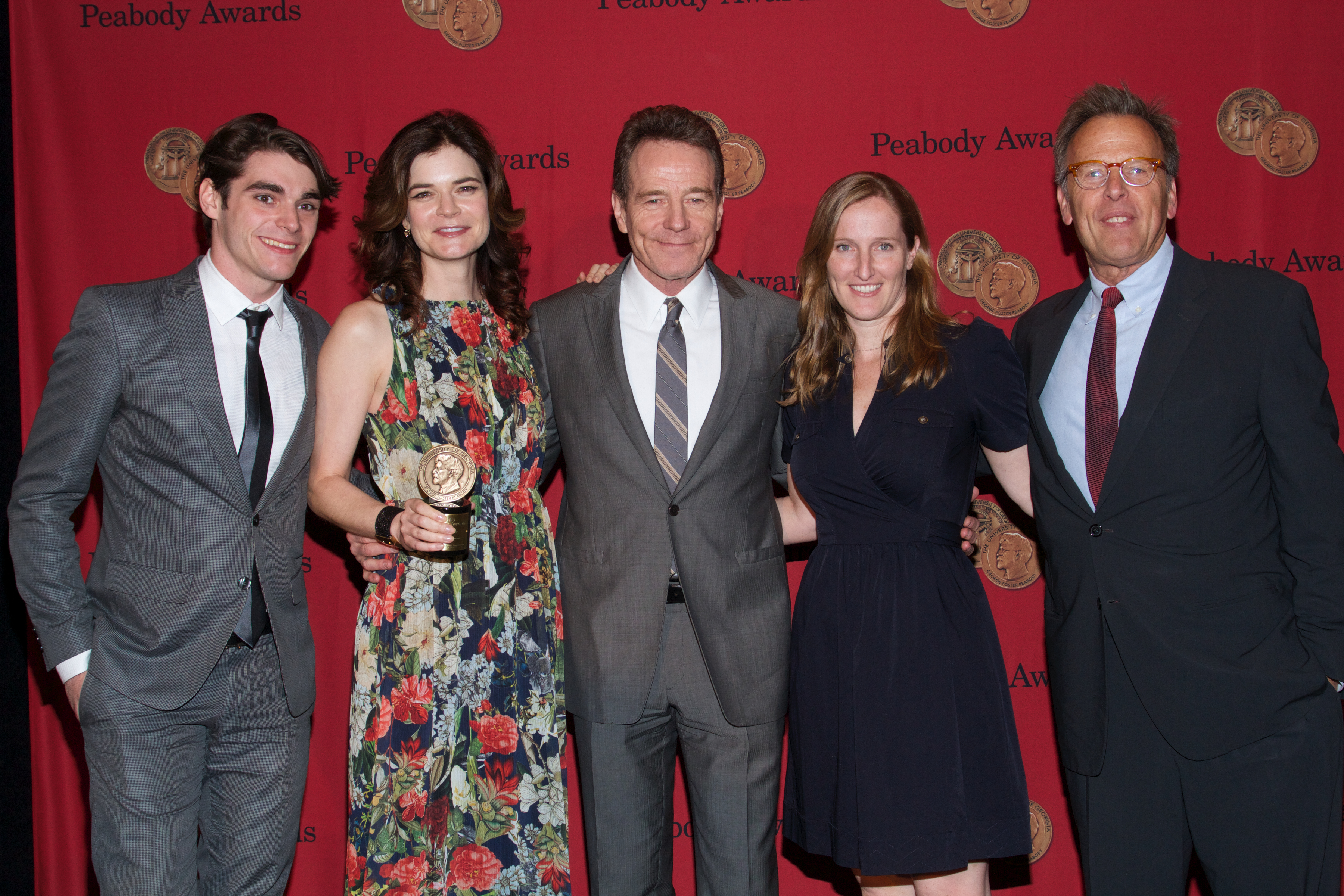 RJ Mitte, Betsy Brandt, Bryan Cranston, and Mark Johnson with the Peabody Award for Breaking Bad